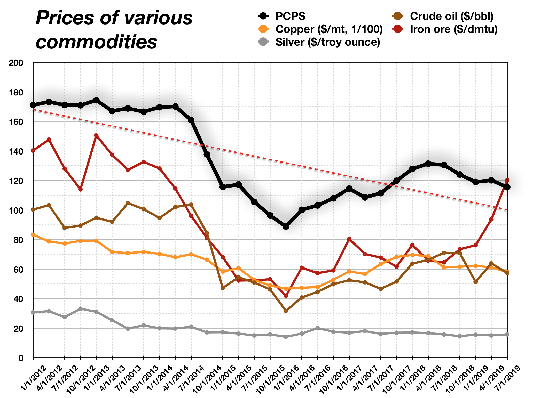 Graph showing prices for various commodities in the 2010s. Sources: IMF, World Bank, USEIA